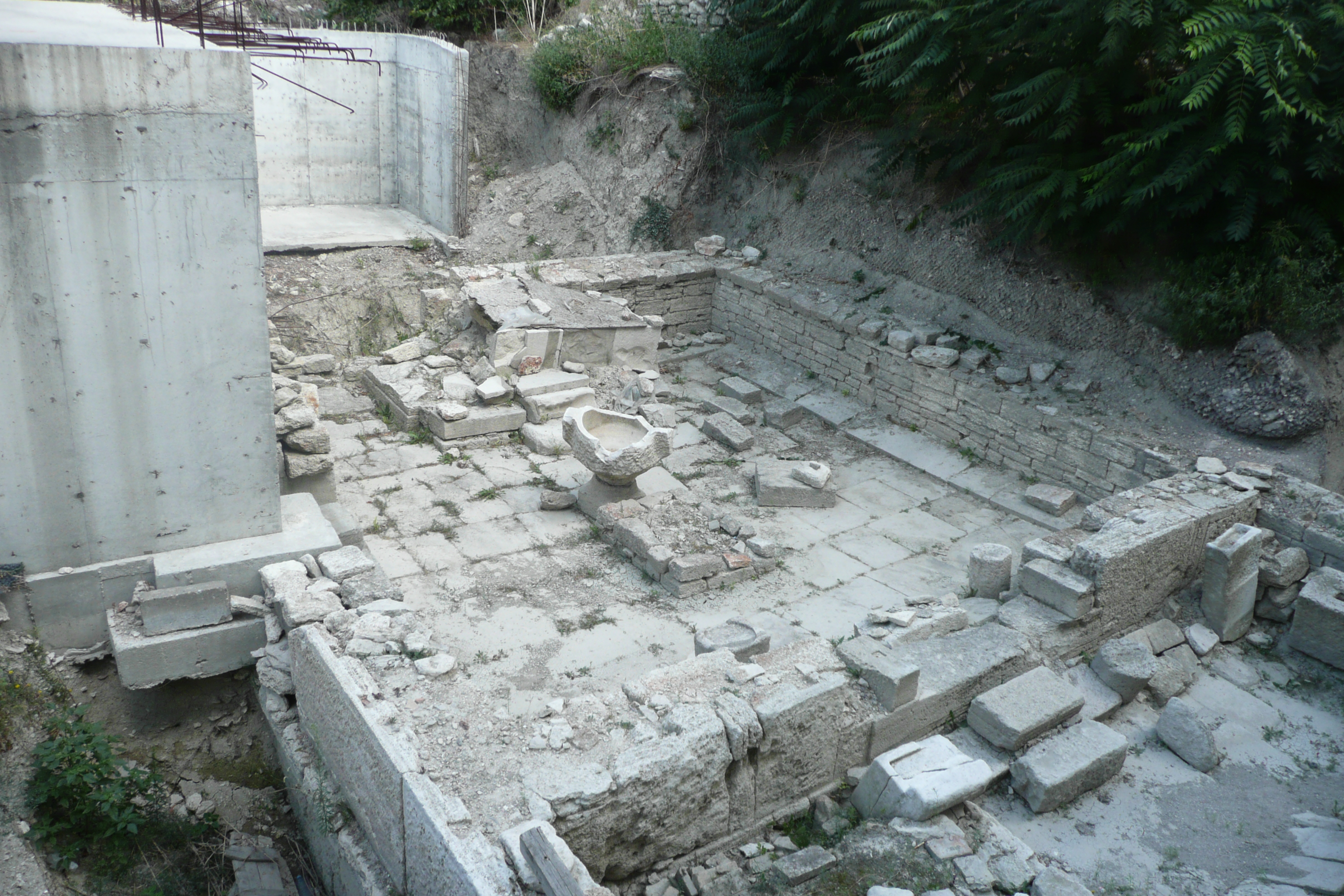 The sanctuary of Cybele found recently (2007) in the town of Balchik, NE Bulgaria.